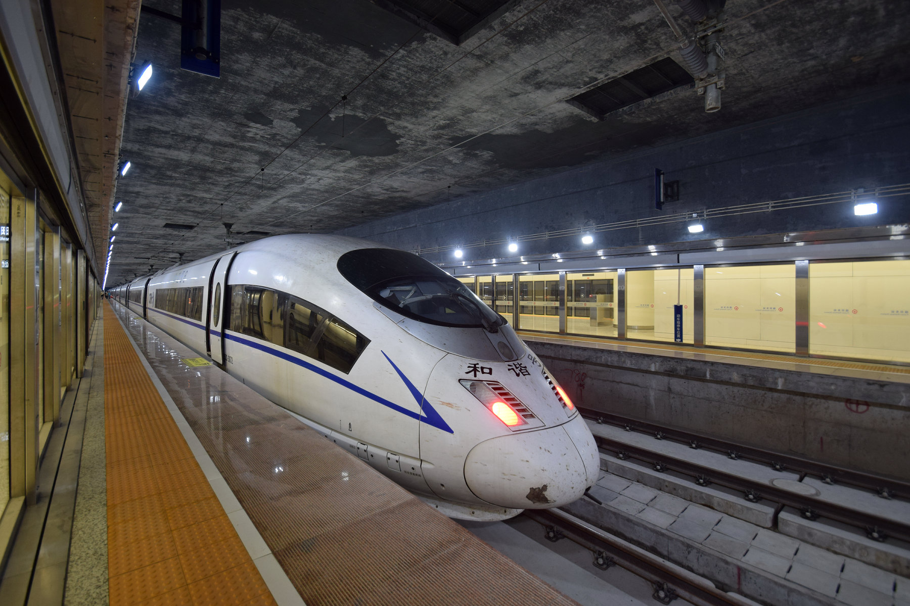 G6018 CRH3C-3072 EMU @ Futian Railway Station